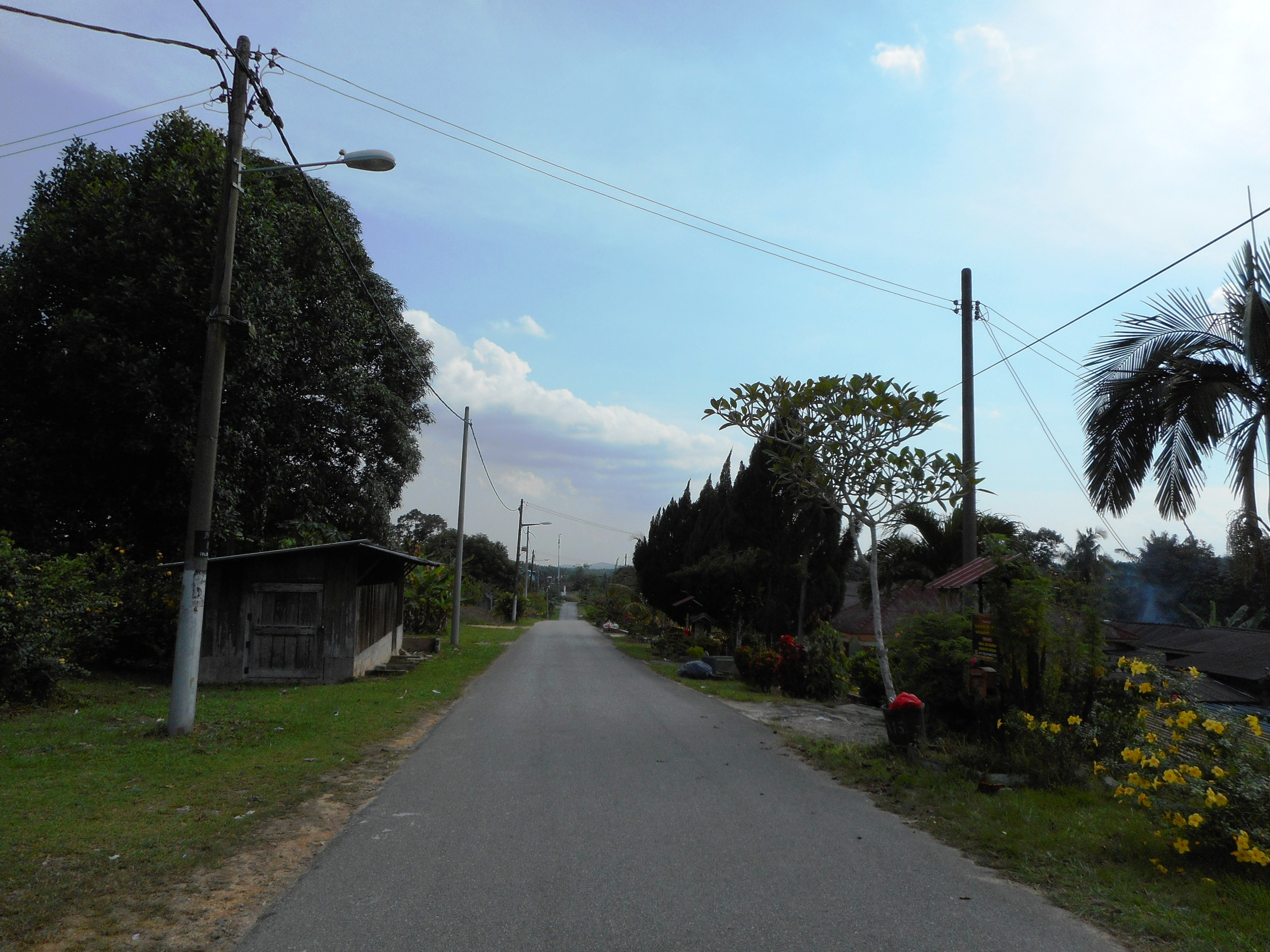 FELDA Bukit Ramun, Kulai, Johor, Malaysia